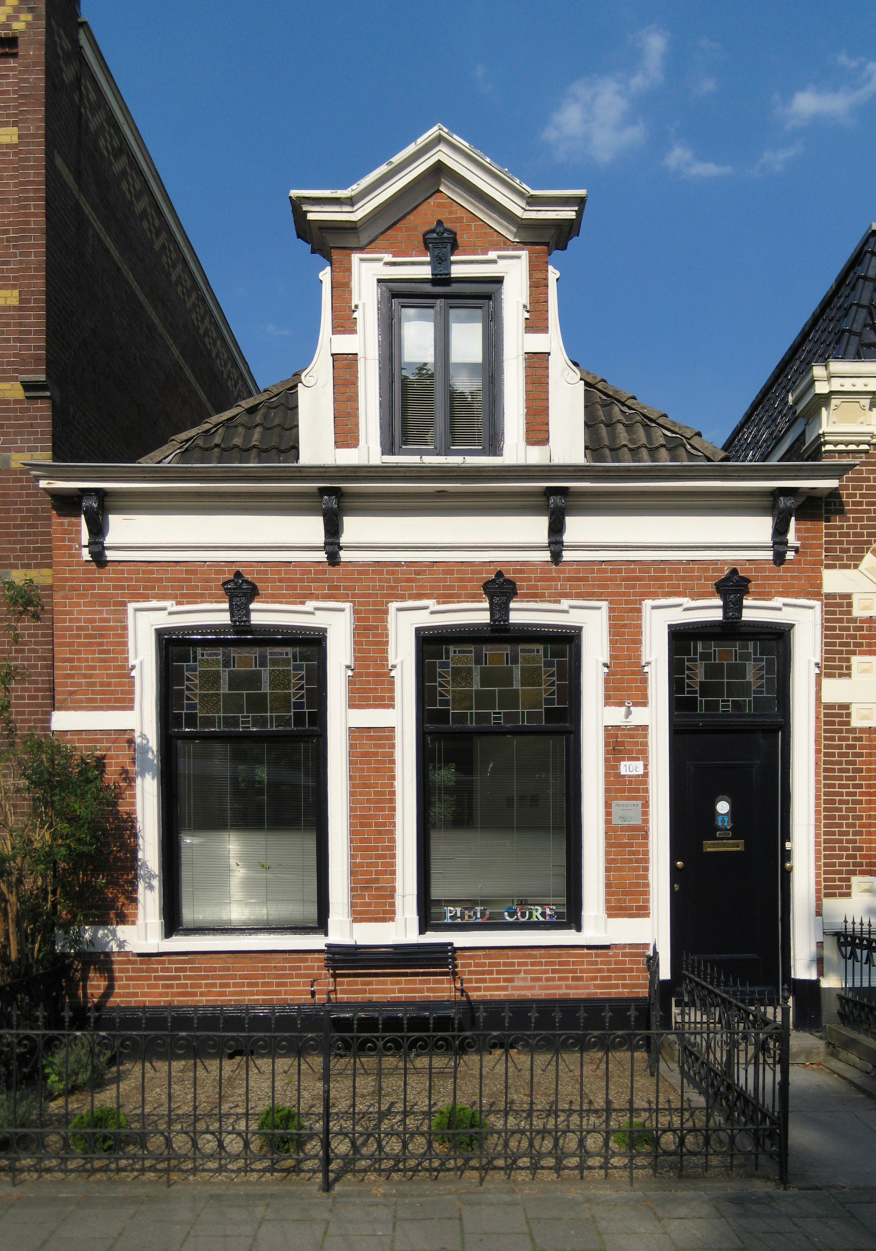 House (1895) in the Dutch city of Groningen.